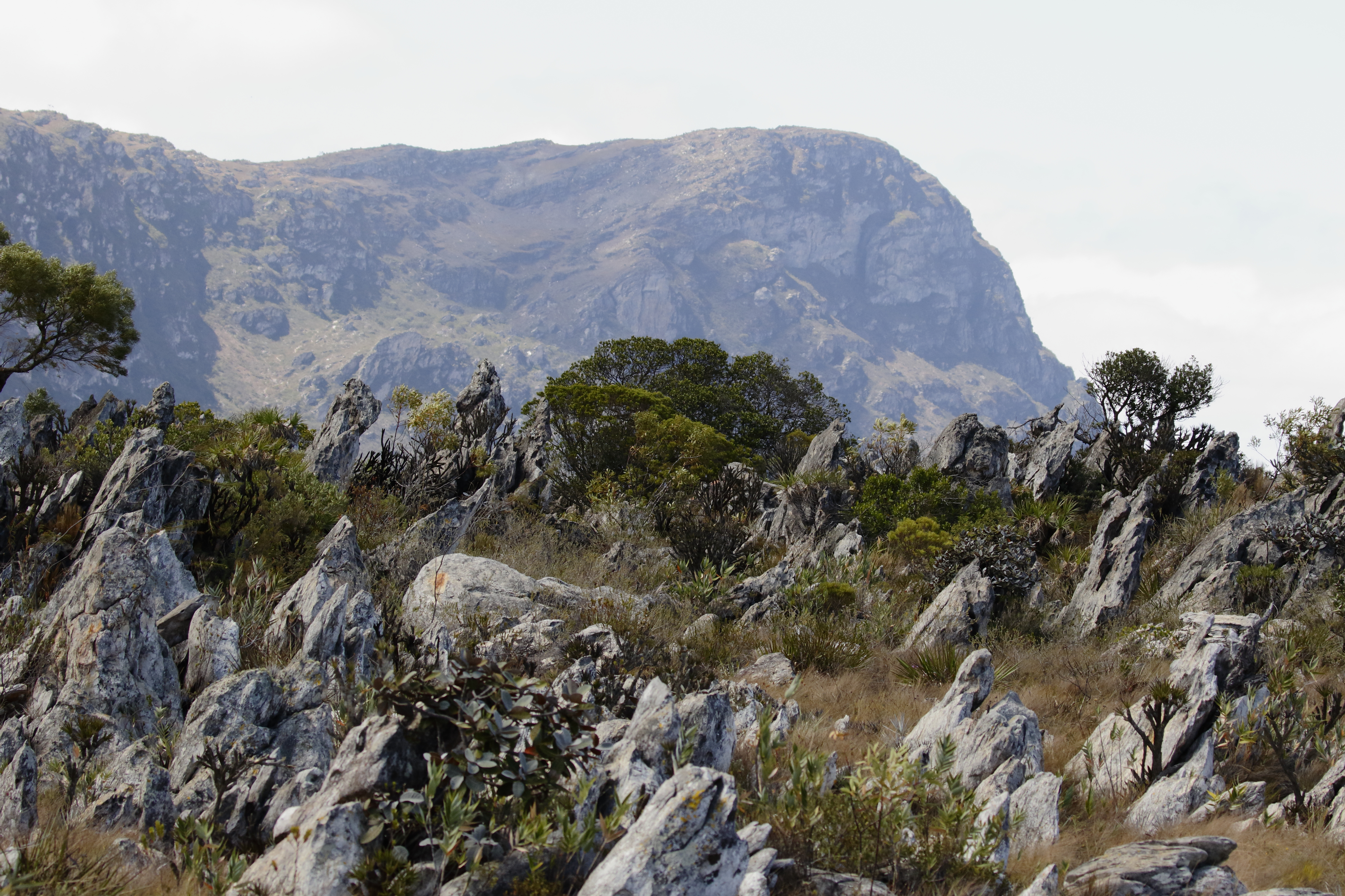 Typical "campos rupestres" formation; Serra do Cipó, Santana do Riacho, MInas Gerais, Brazil